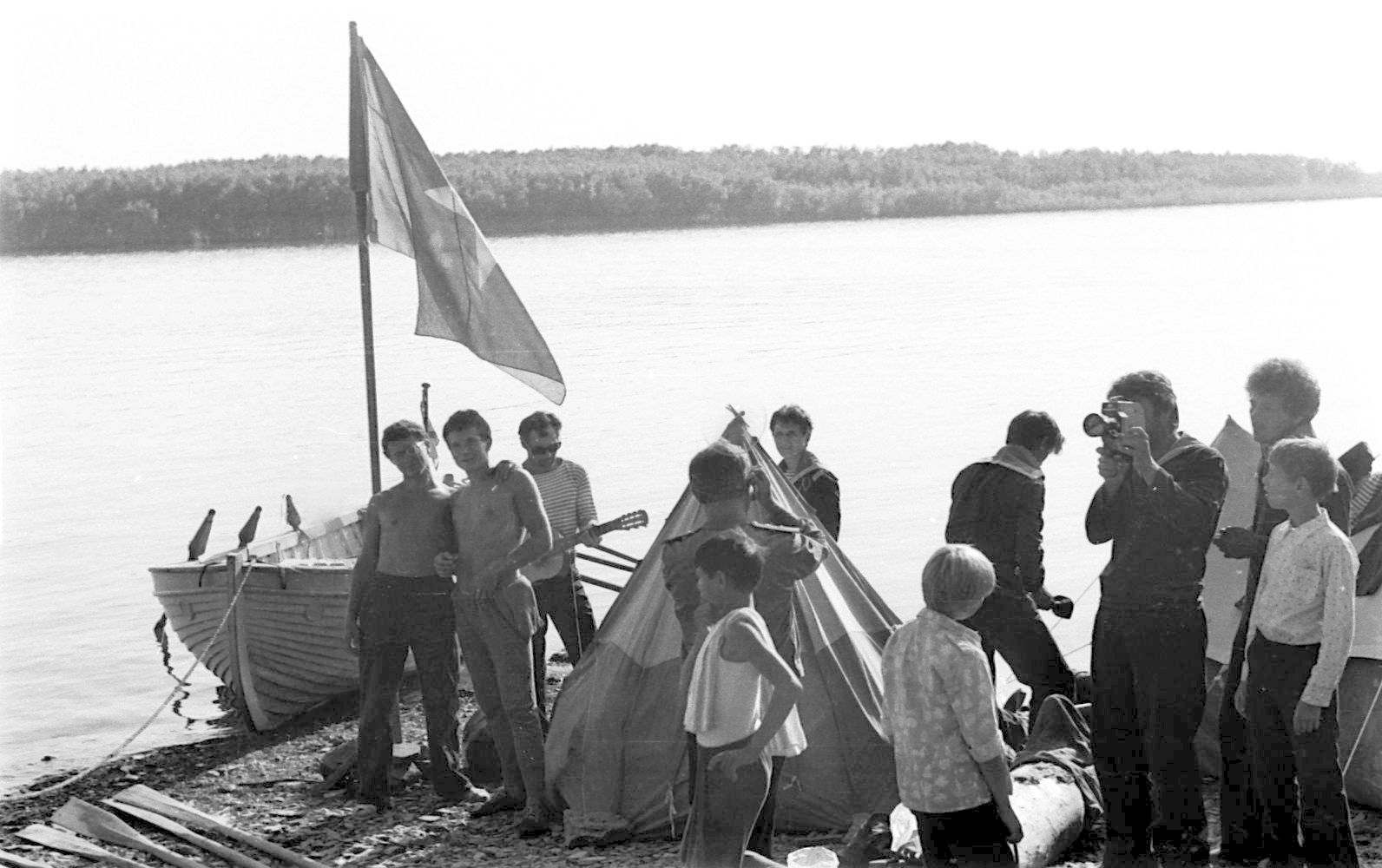 Любительская киносъёмка кинокамерой Красногорск-2